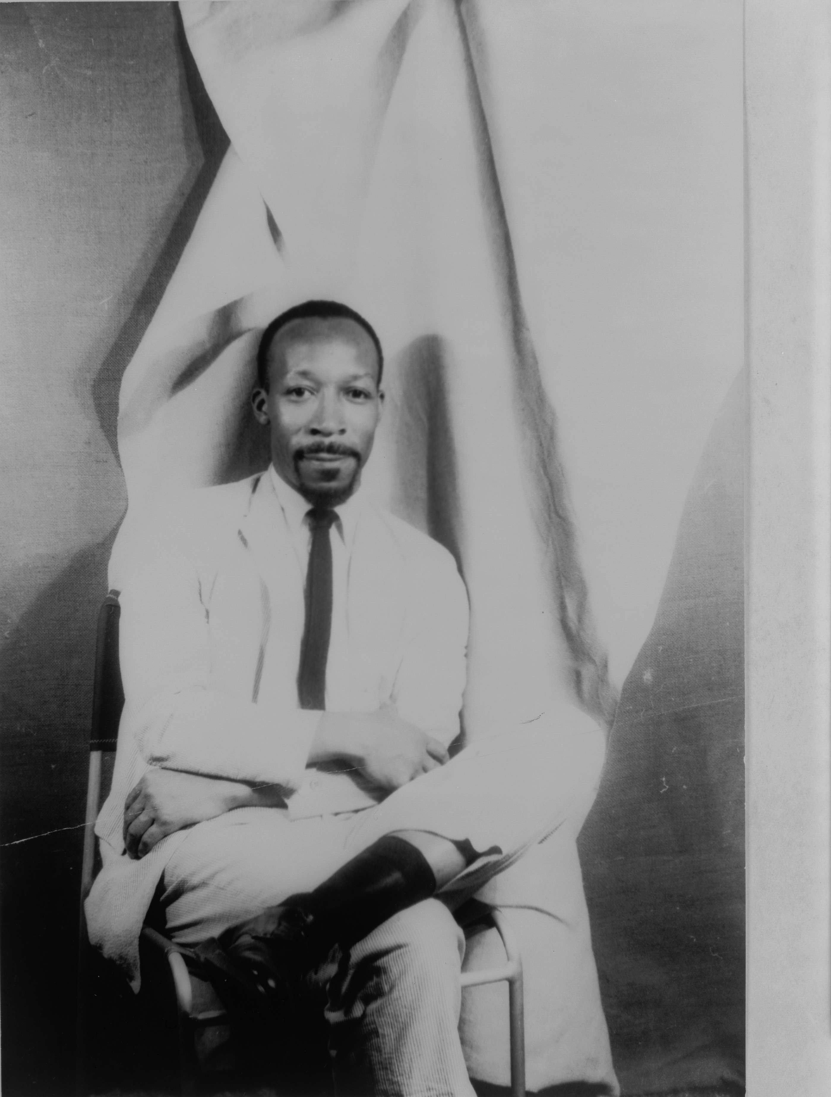 Author / critic John A. Williams (b. 1925)